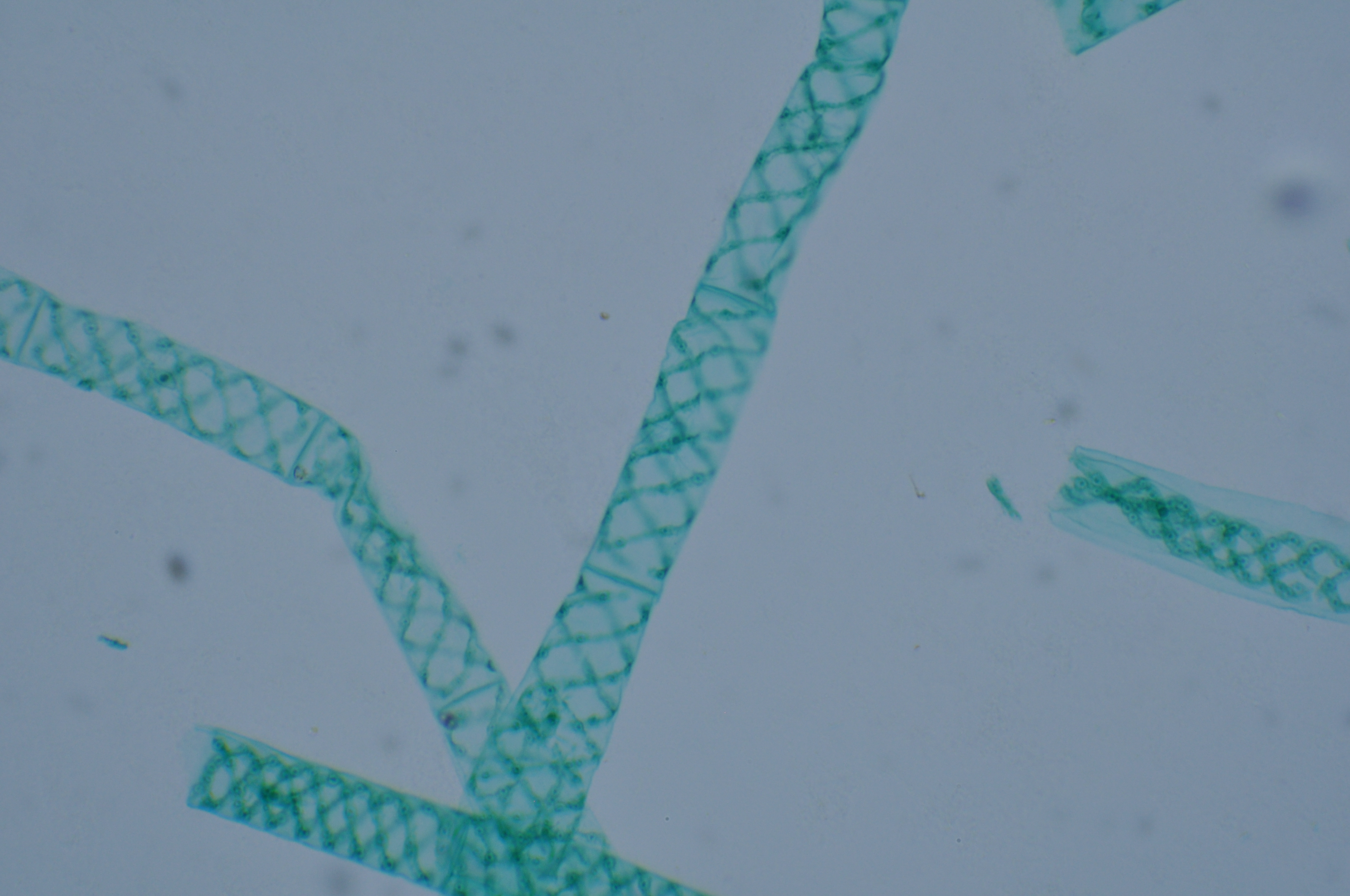 Spirogyra under light microscope, in the central part of the picture a cell nucleus can be seen.